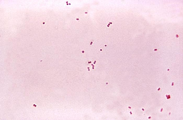 This micrograph depicts the presence of aerobic Gram-negative Neisseria meningitidis diplococcal bacteria; Mag. 1150X. Meningococcal disease is an infection caused by a bacterium called N. meningitidis or the meningococcus. The meningococcus lives in the throat of 5-10% of healthy people. Rarely, it can cause serious illness such as meningitis or blood infection.